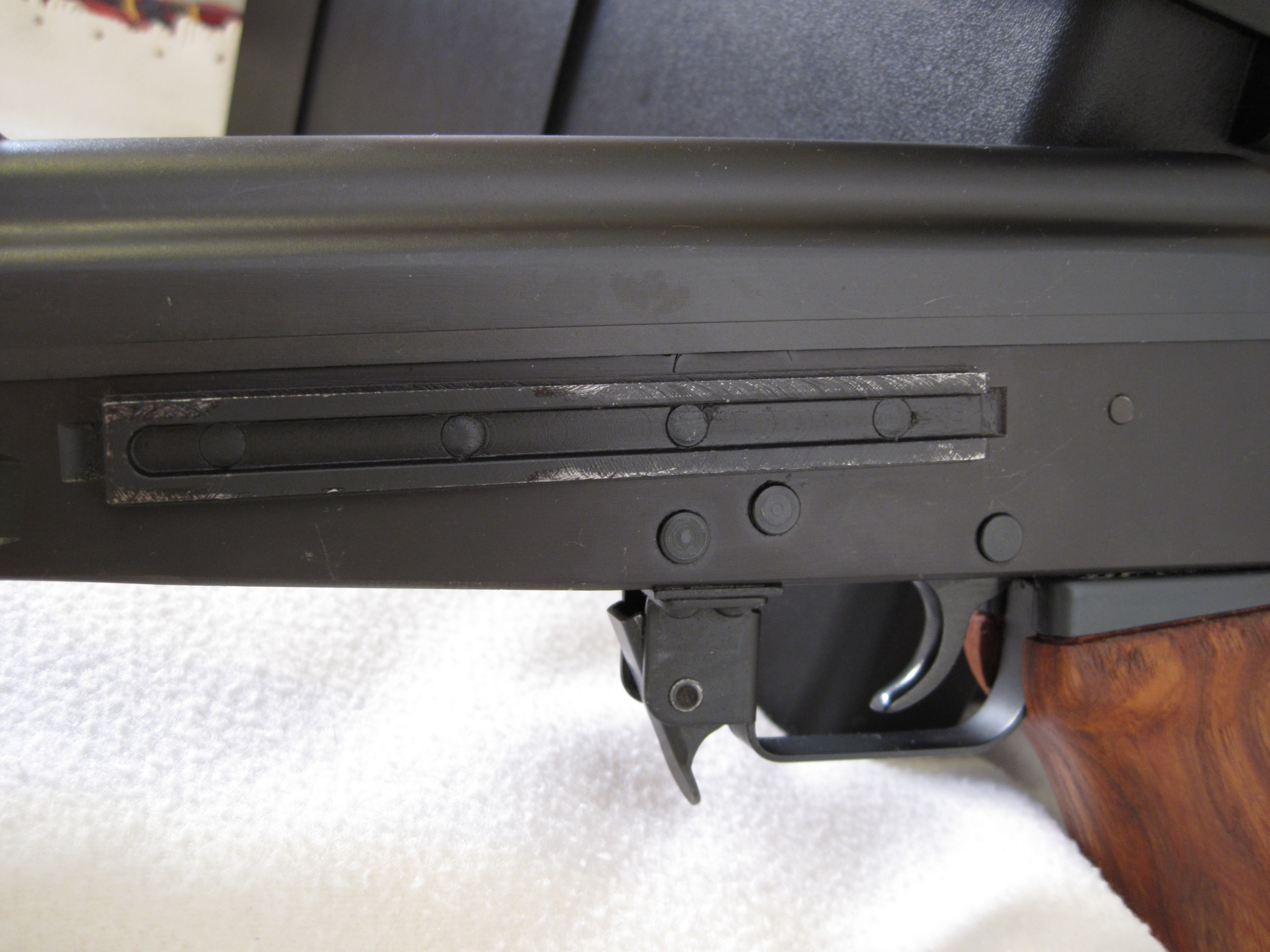 Zastava M-76 scope slide